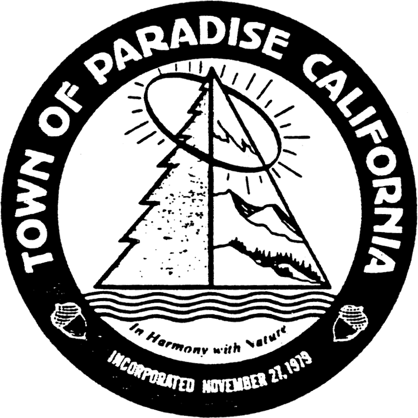 Seal of Paradise, California